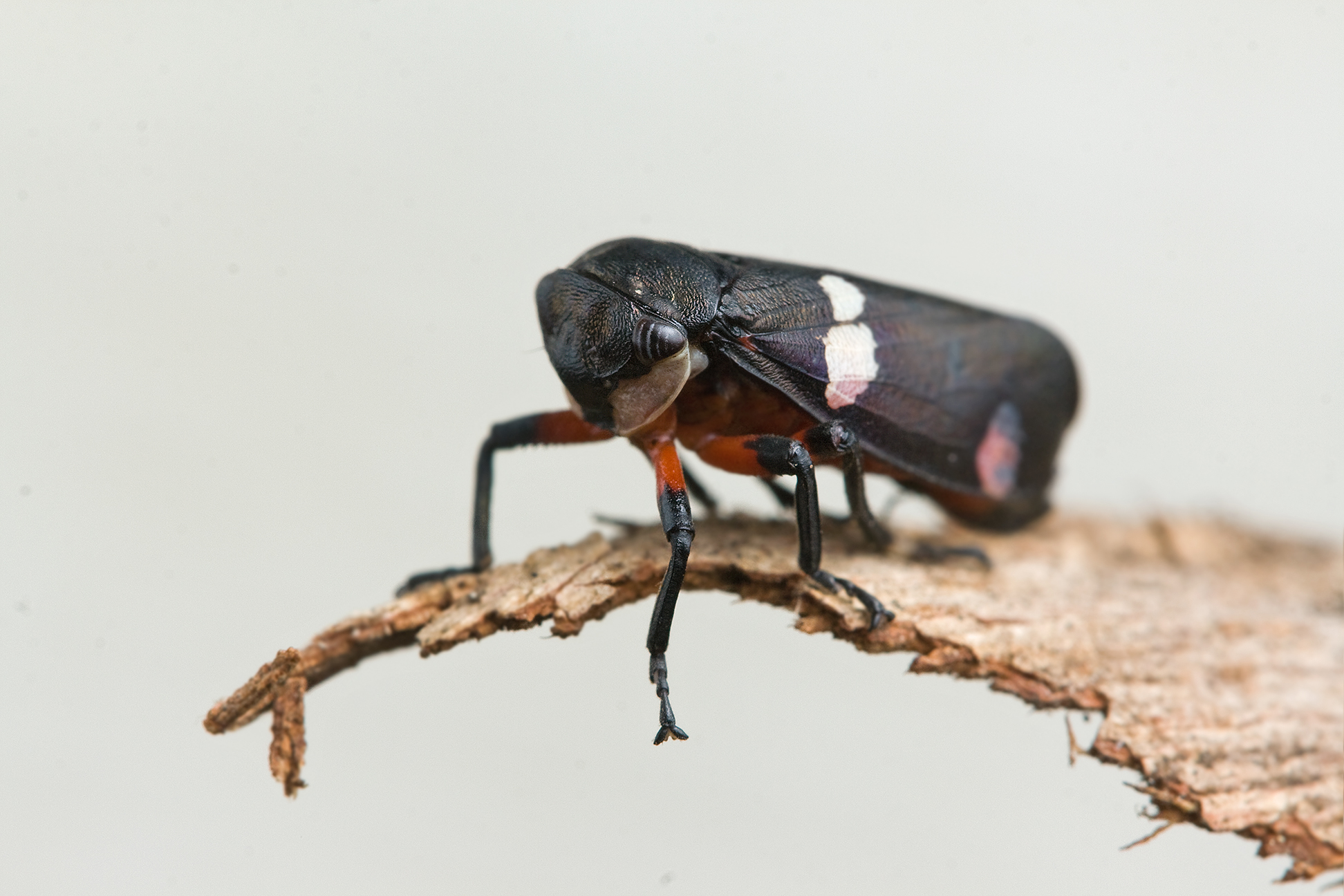 Eurymela distincta, Meehan Range, Tasmania, Australia